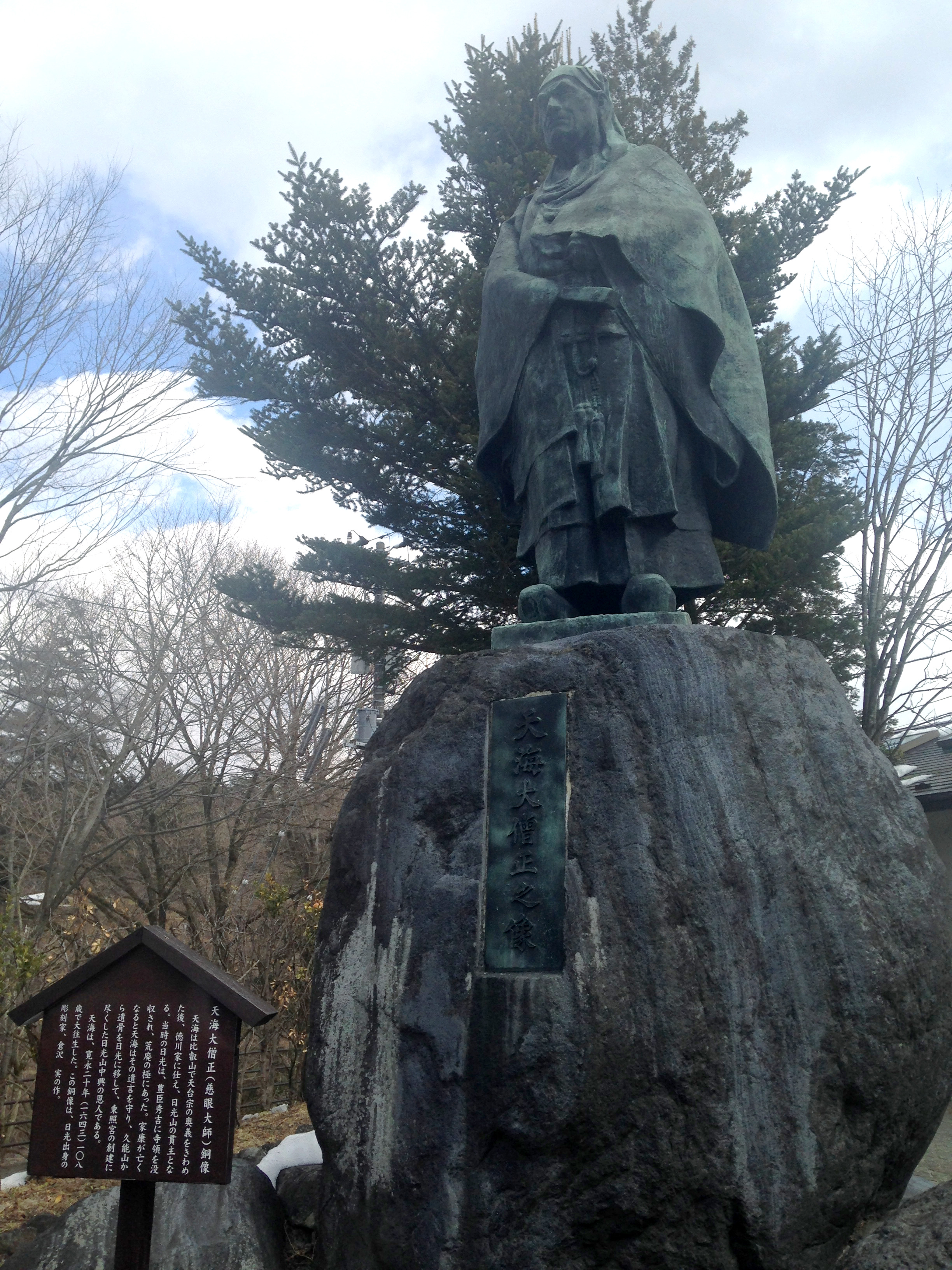 Japan: a bronze statue of Tenkai, near the Nikkō bridge (Nikkō, Tochigi prefecture).